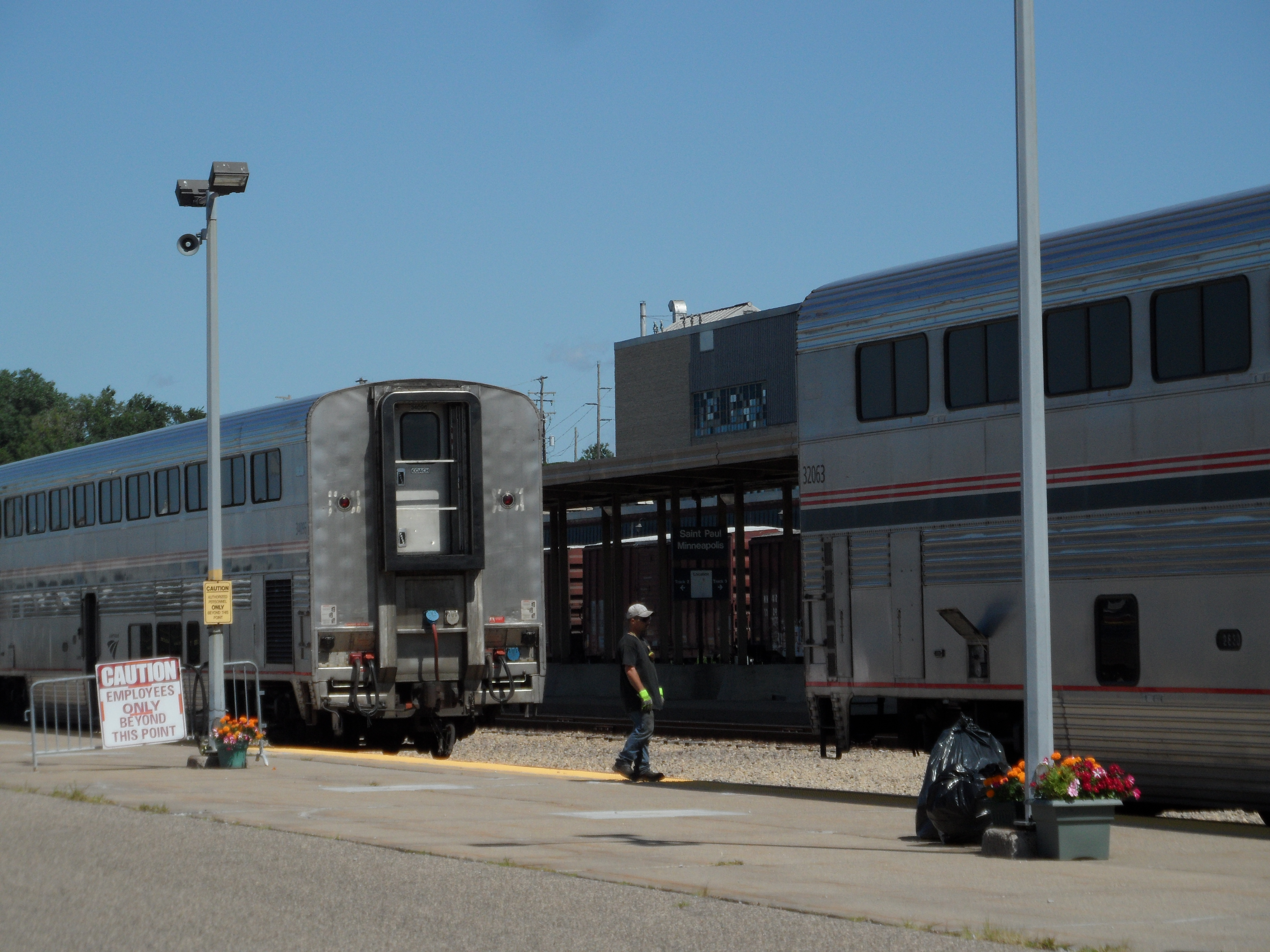 The Empire Builder at Midway station in St. Paul, Minnesota. On the left is a Superliner I coach; on the right a Superliner I sleeping car.